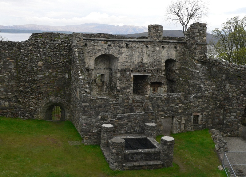 Dunstaffnage Castle, Argyll and Bute, Scotland - new house